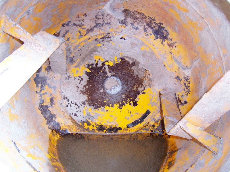 The inside view of a concrete mixer.